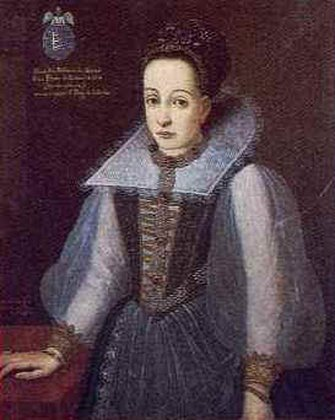 Portrait of Elizabeth Báthory (1560-1614)